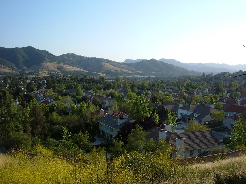 Western Agoura Hills from the hills north of Morrison Ranch Kapampangan: Albugan Talimunduk king Agoura manibat talimunduk pangulu ning Morrison Ranch